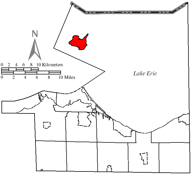 Made by the US Census and modified by myself